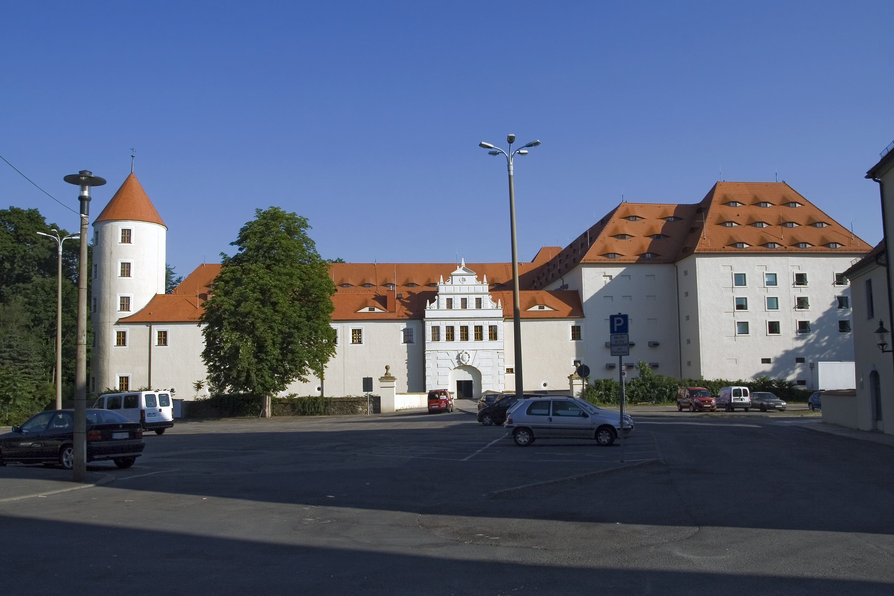 Schloss Freudenstein, castle in Freiberg, Saxony